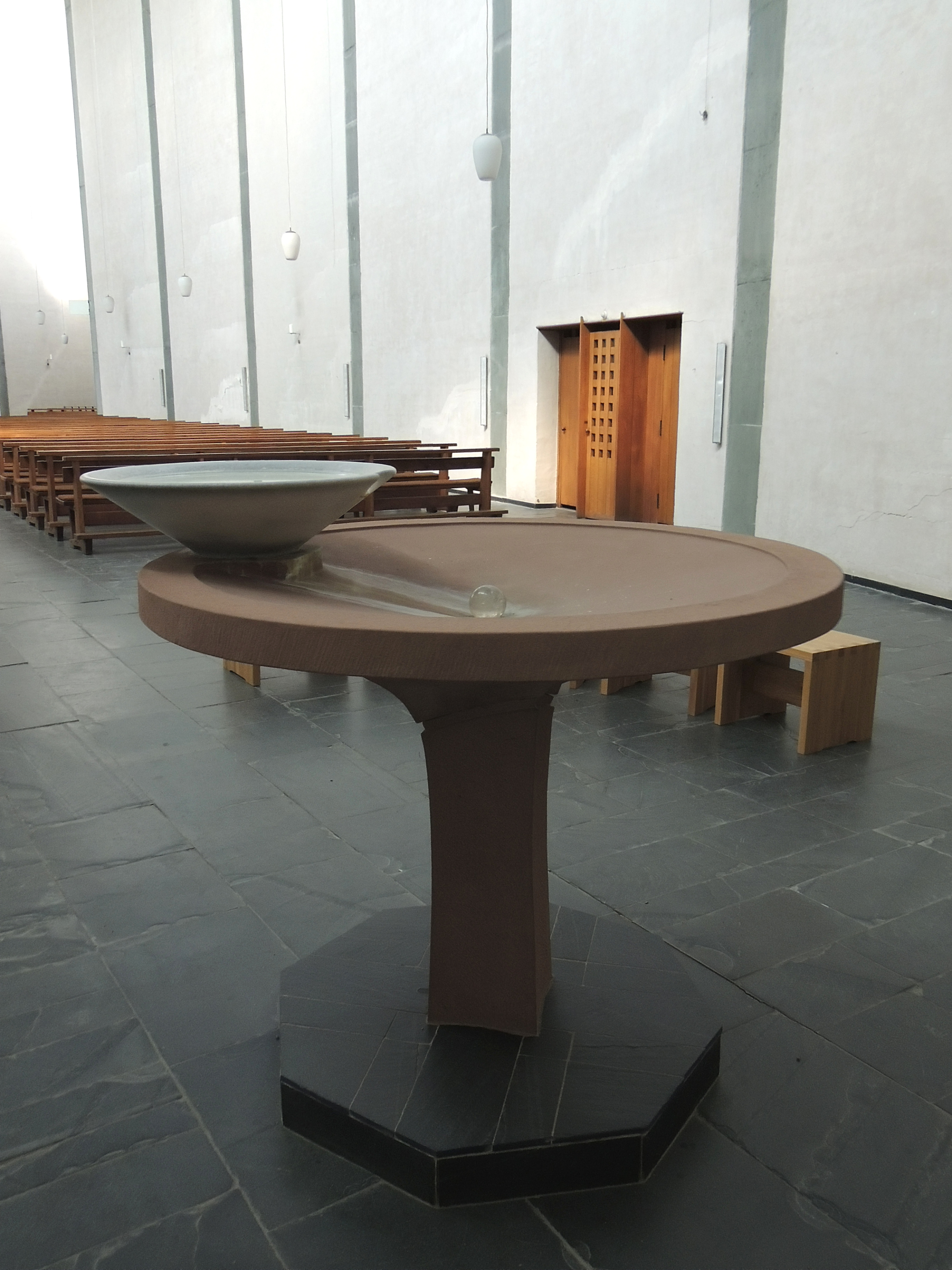 Spring of baptism in the chancel of church St. Michael in Frankfurt am Main-Nordend